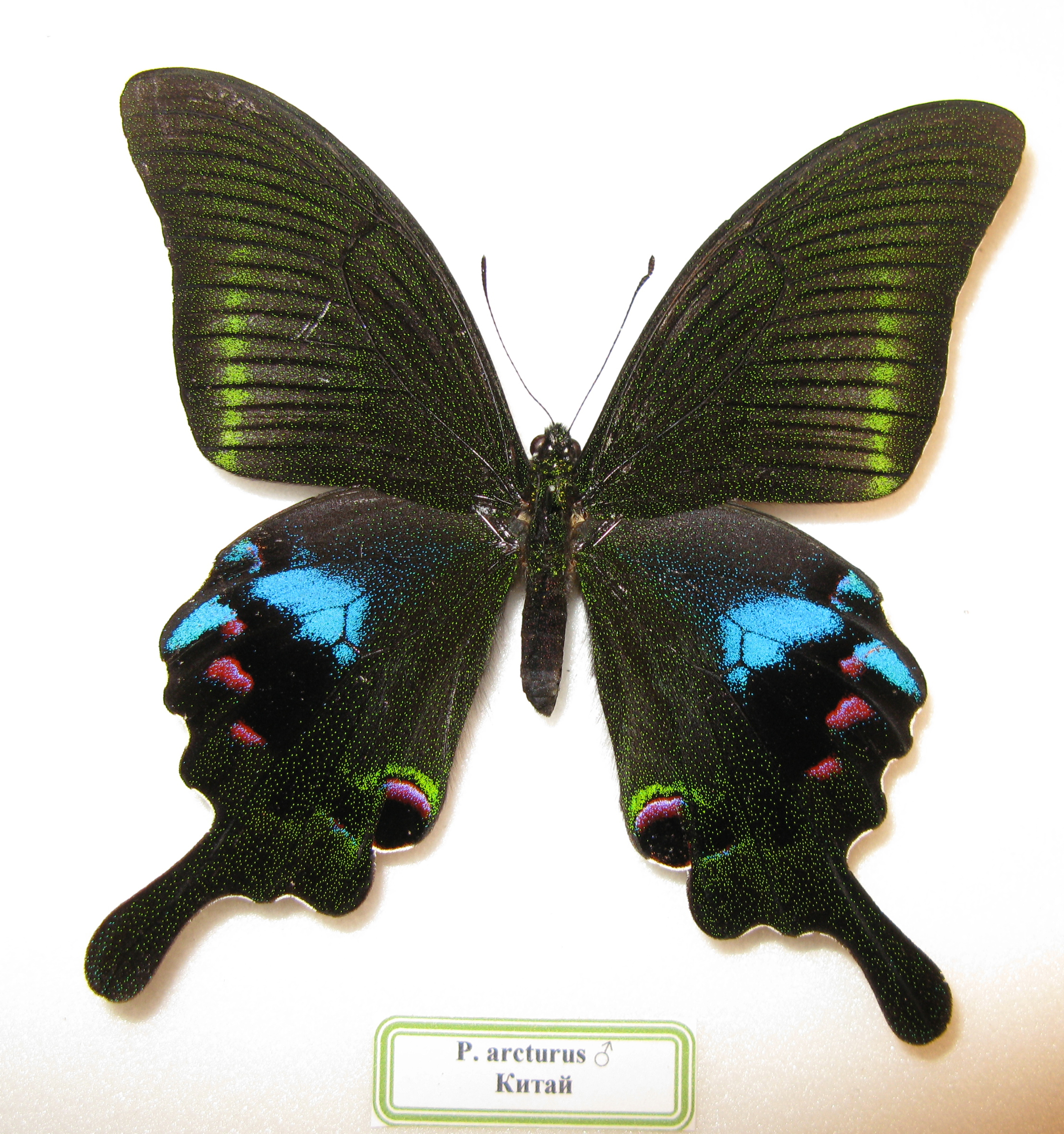 Papilio arcturus (male)